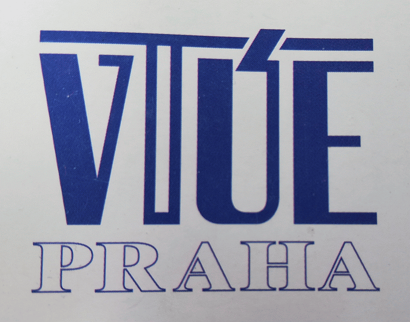 Logo of former (in year 2004 already defunct) "Military Technical Institute of Electronics Prague" located in Prague - Jinonice, Czech republic.